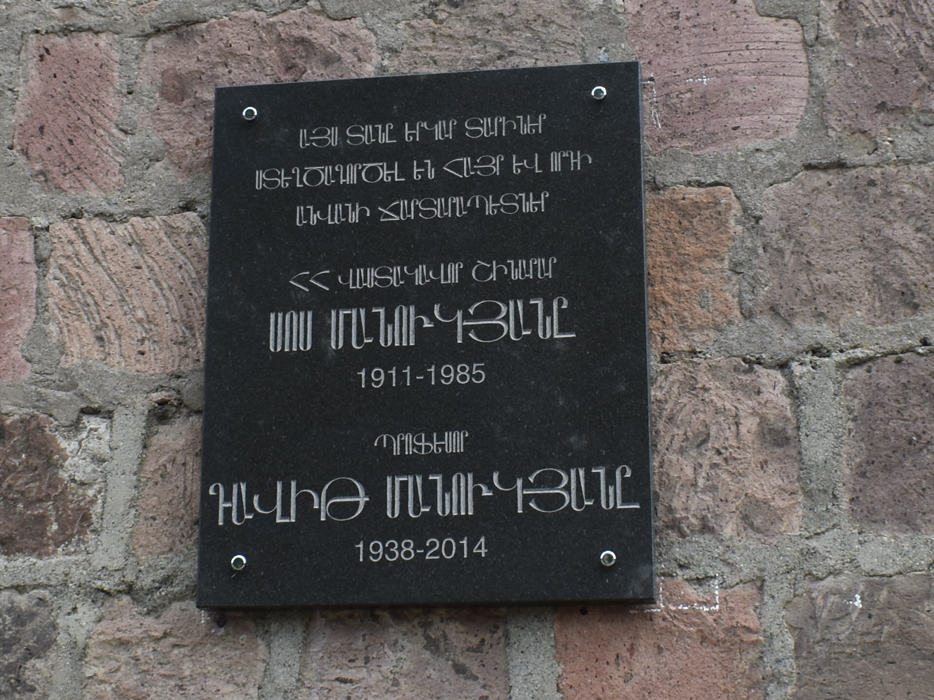 Սոս Մանուկյանի հուշաքարը տան պատին